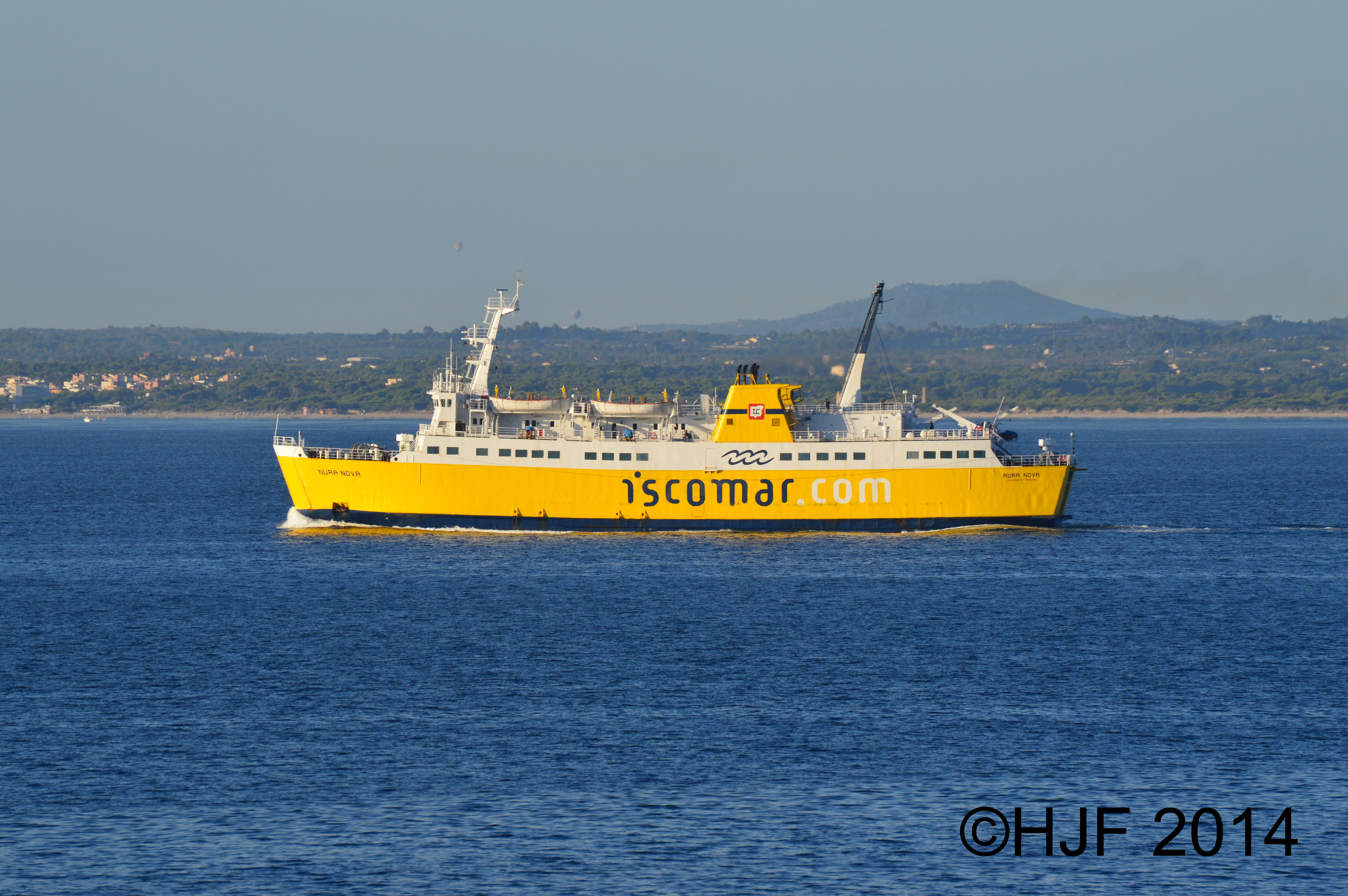 Nura Nova departing Alcudia